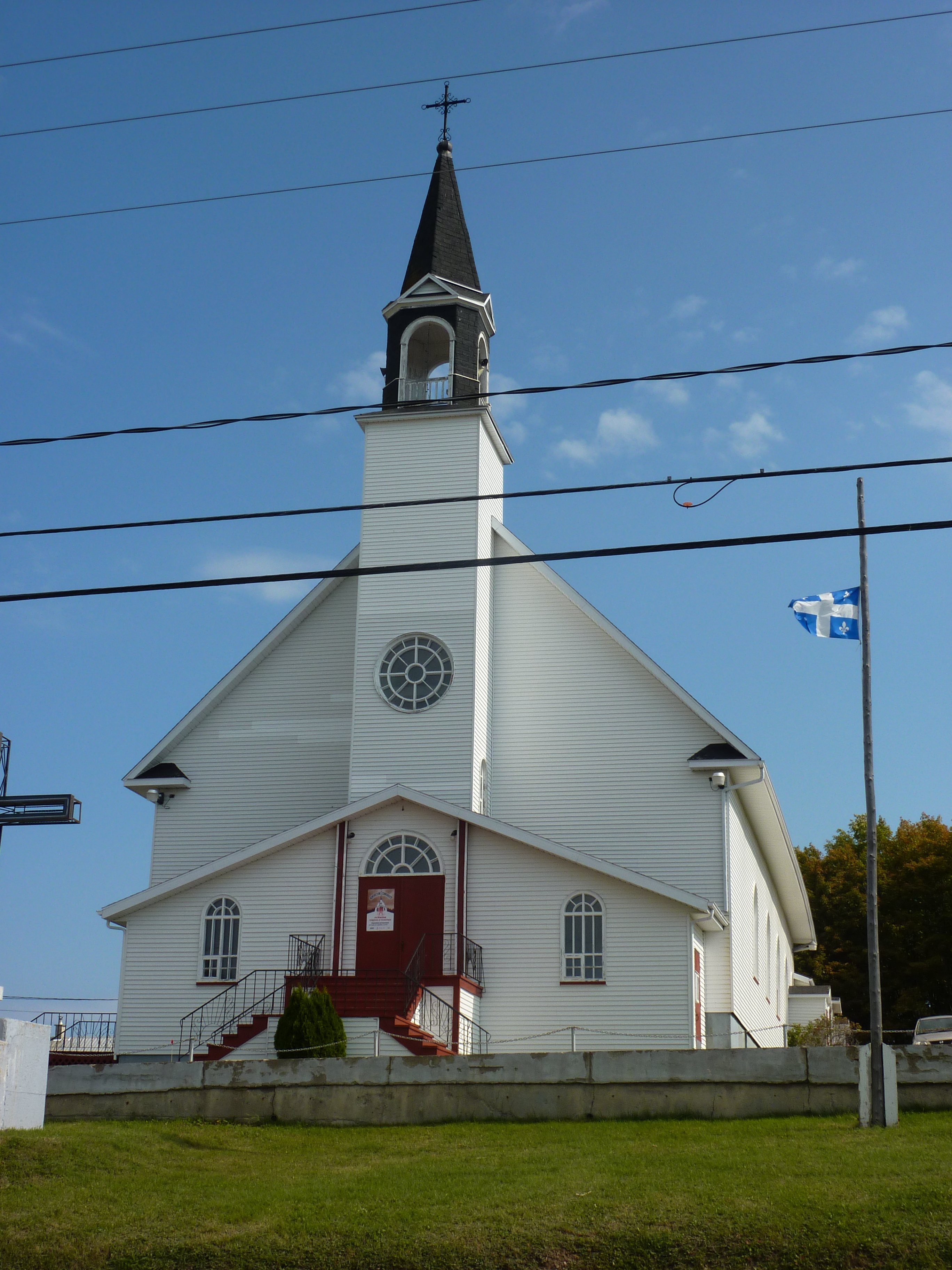 Church of Esprit-Saint, Quebec